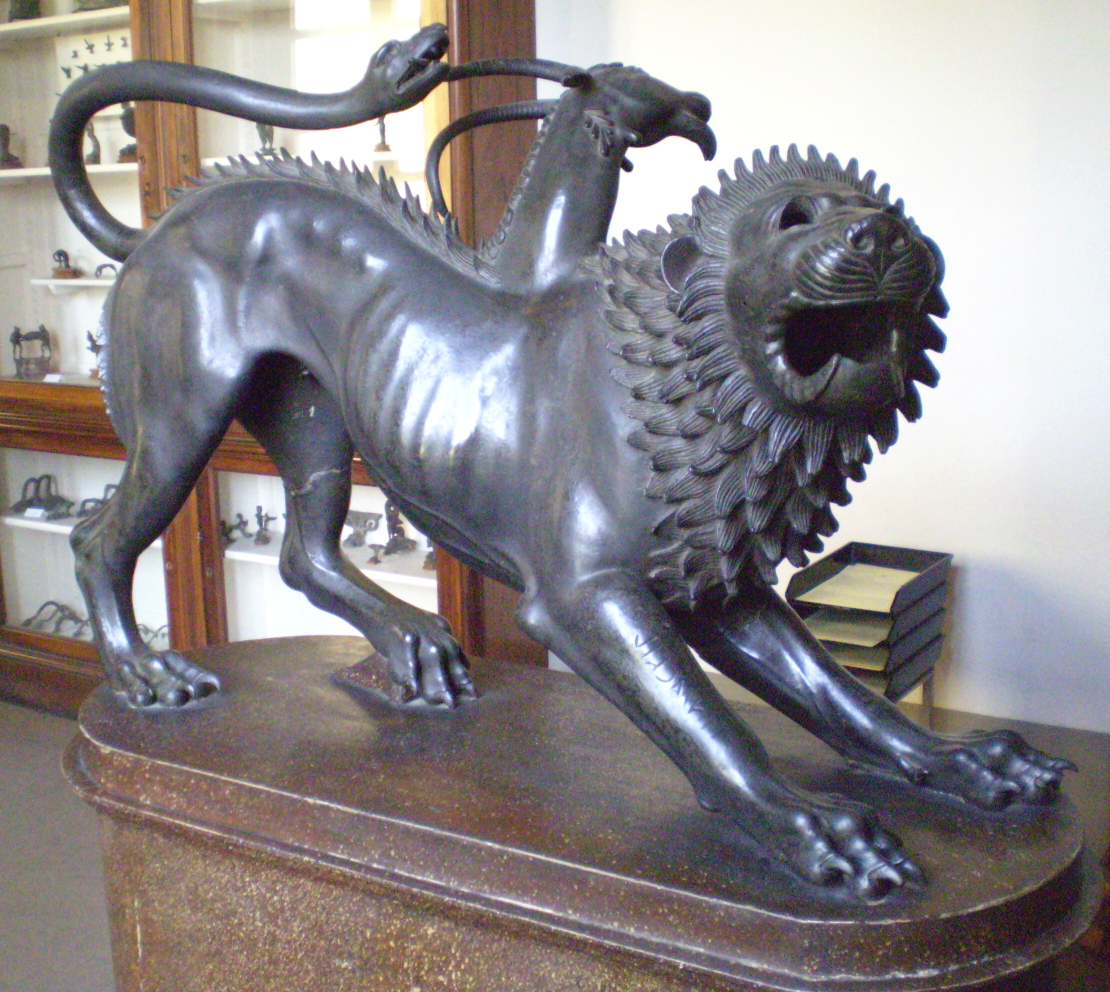 Etruscan bronze statue depicting the legendary monster. It was originally part of a group with Bellerophon and Pegasus. On the right leg is engraved the dedicatory inscription to Tinia.